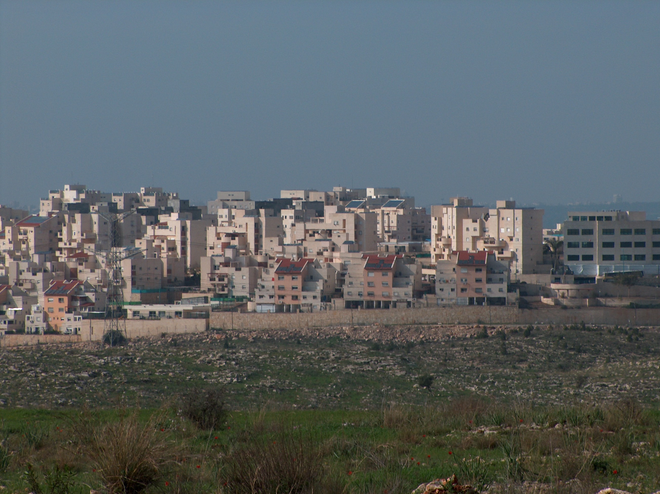 El'ad, Israel